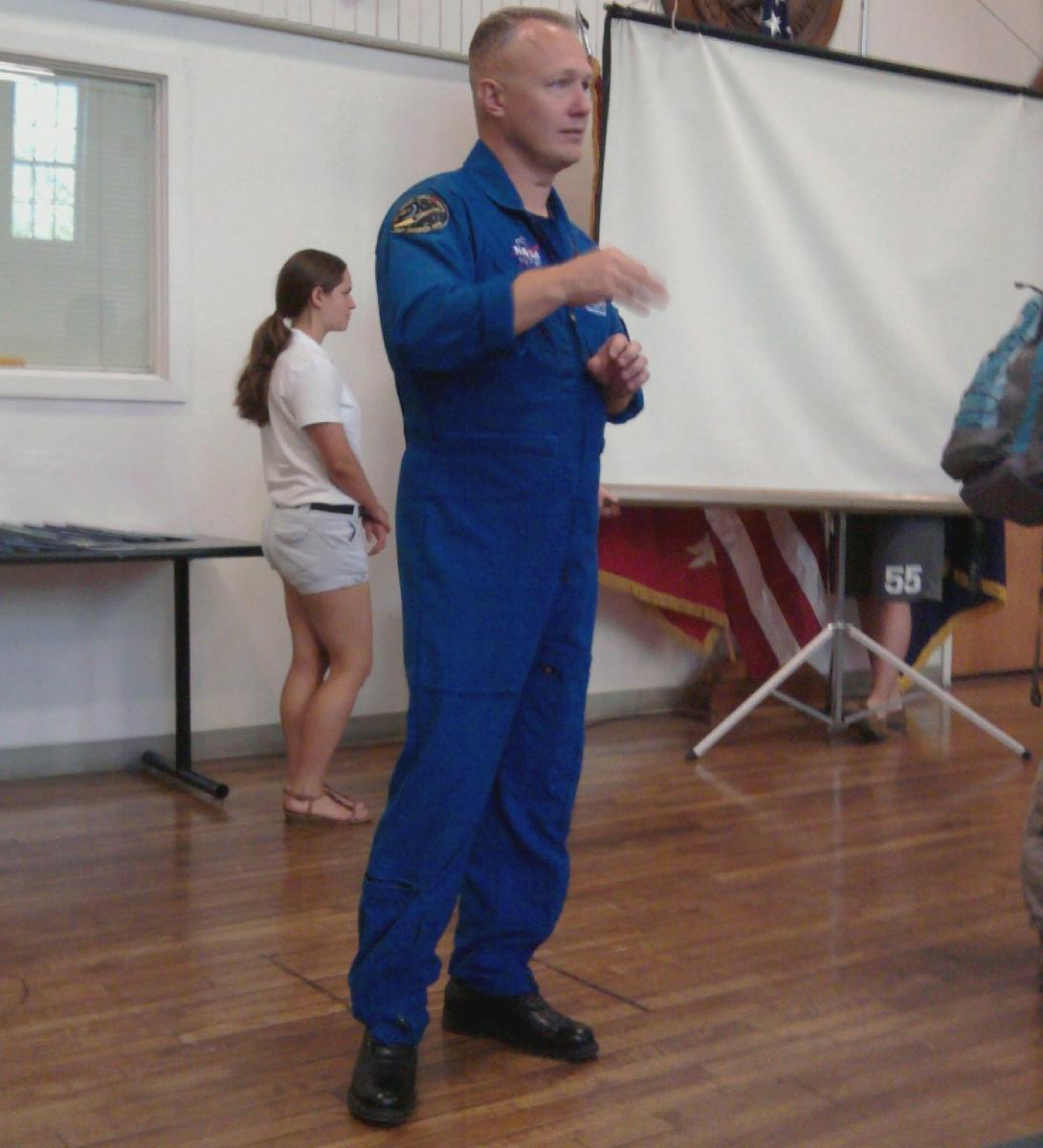 Picture of Colonel Doug Hurley speaking at Tulane University